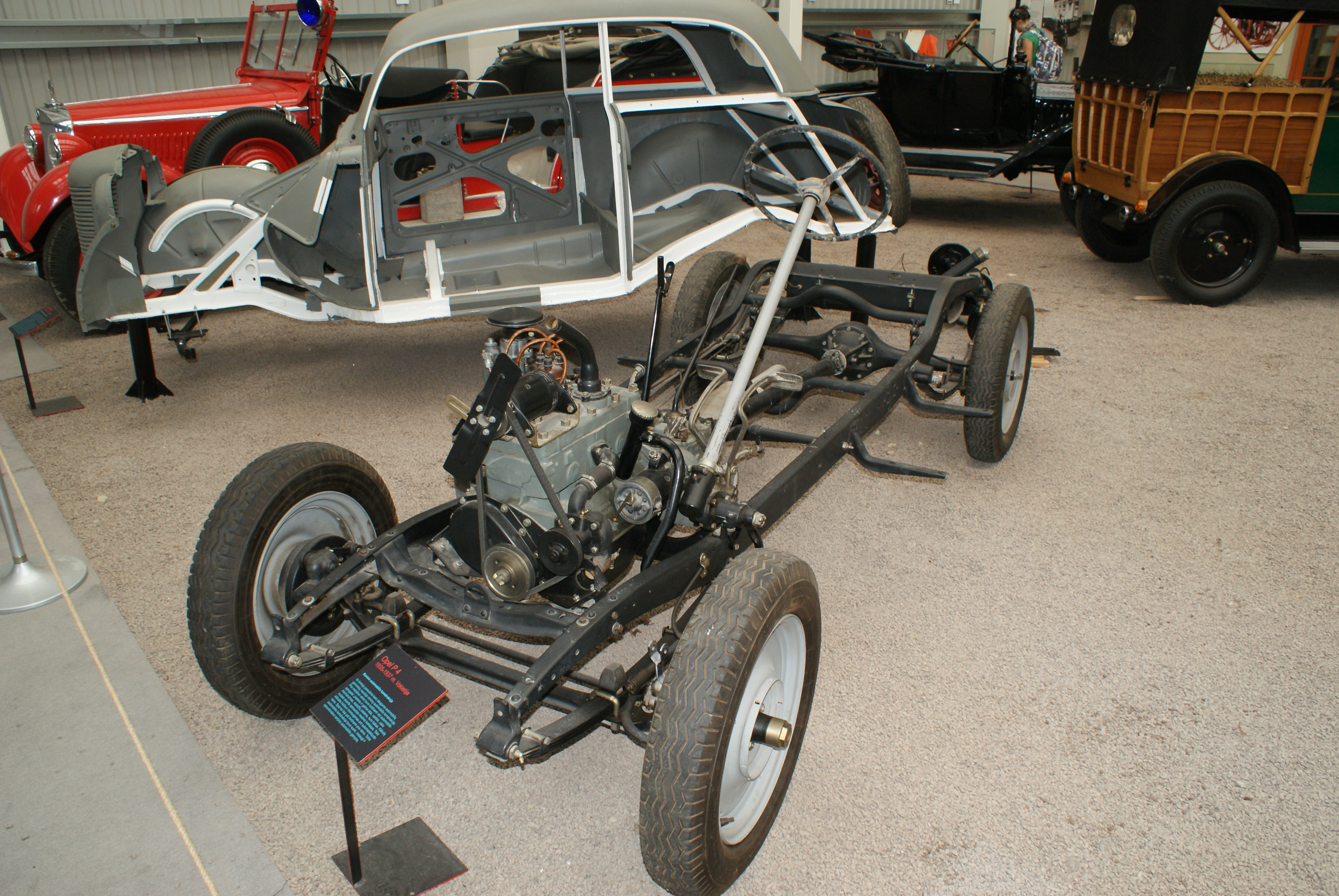 Opel P4 in Vilnius Energy and Technology Museum